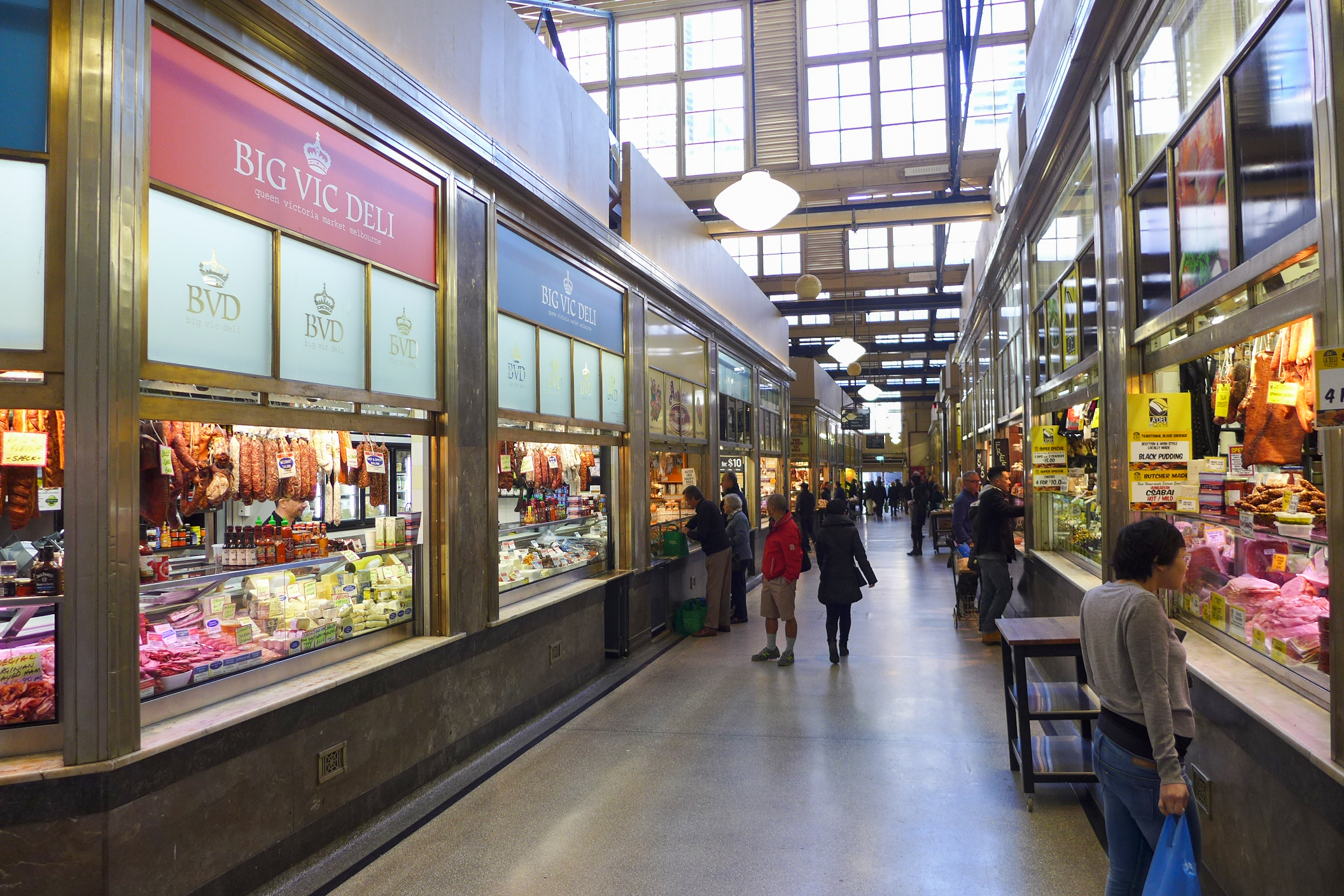 Queen Victoria Market Daily Product Hall